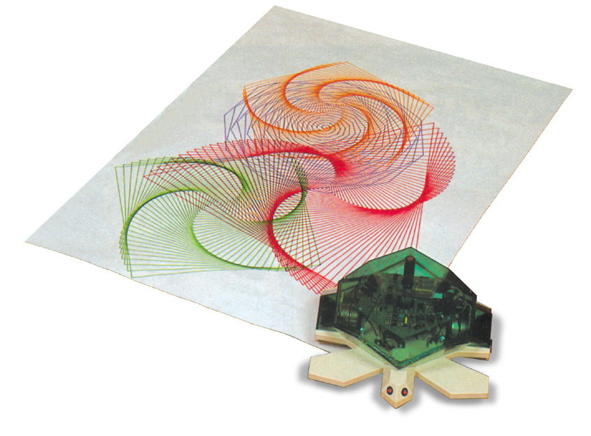 The infra red controlled Valiant Turtle Robot was launched in 1983 and stayed in production until 2011. Image by Valiant Technology Ltd.